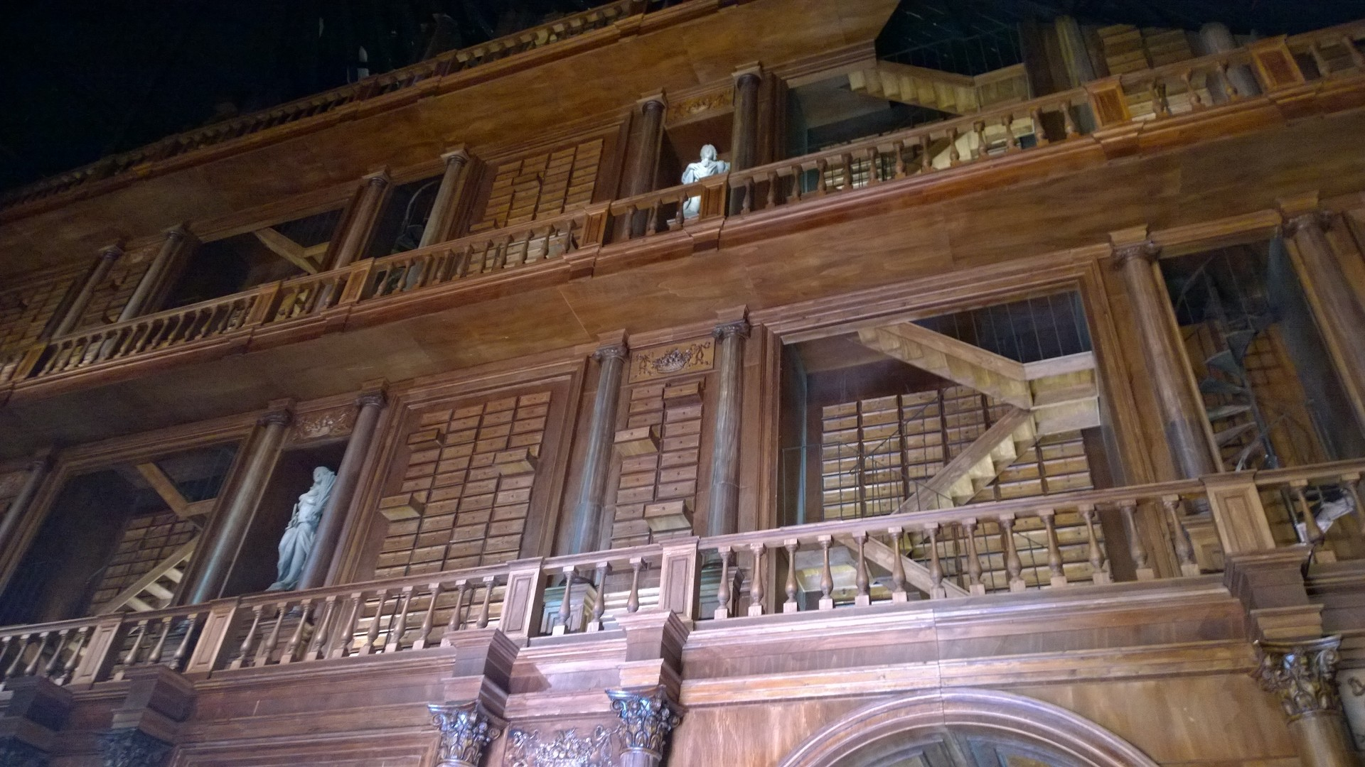 The Memory archive of Pavilion Zero at Expo 2015 Milano